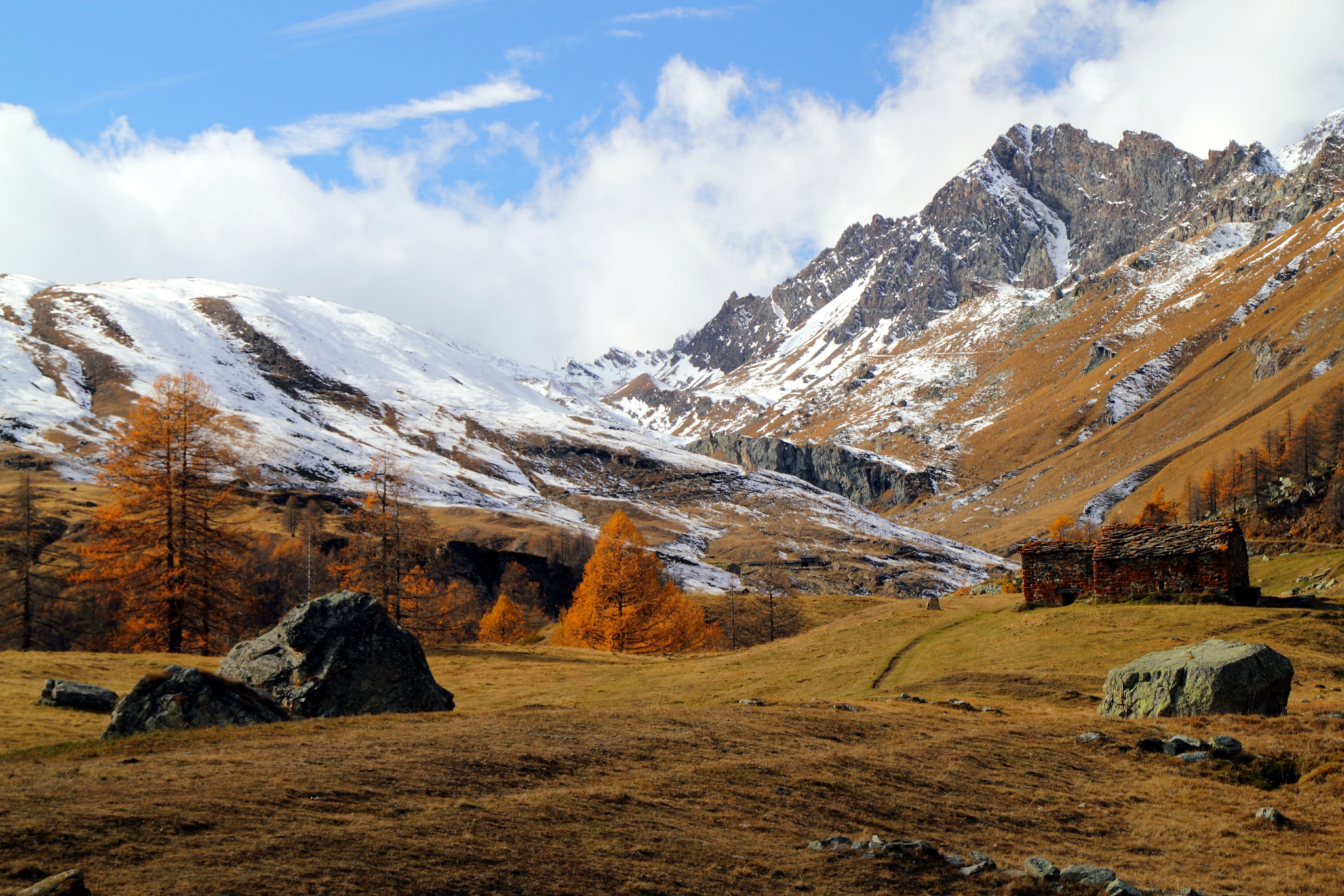 I took this one from the road leading to Dondena (Dondennaz), a couple of kilometres before arriving there. In the right upper corner the Monte Dela (not really sure). In the far distance you can see the horrible power line pylons coming from the Super-Phénix, the nuclear power station in France which was shut down in 1997 (so the monsters are now completely useless).